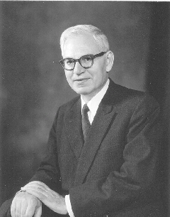 Picture of Maajid Khadduri